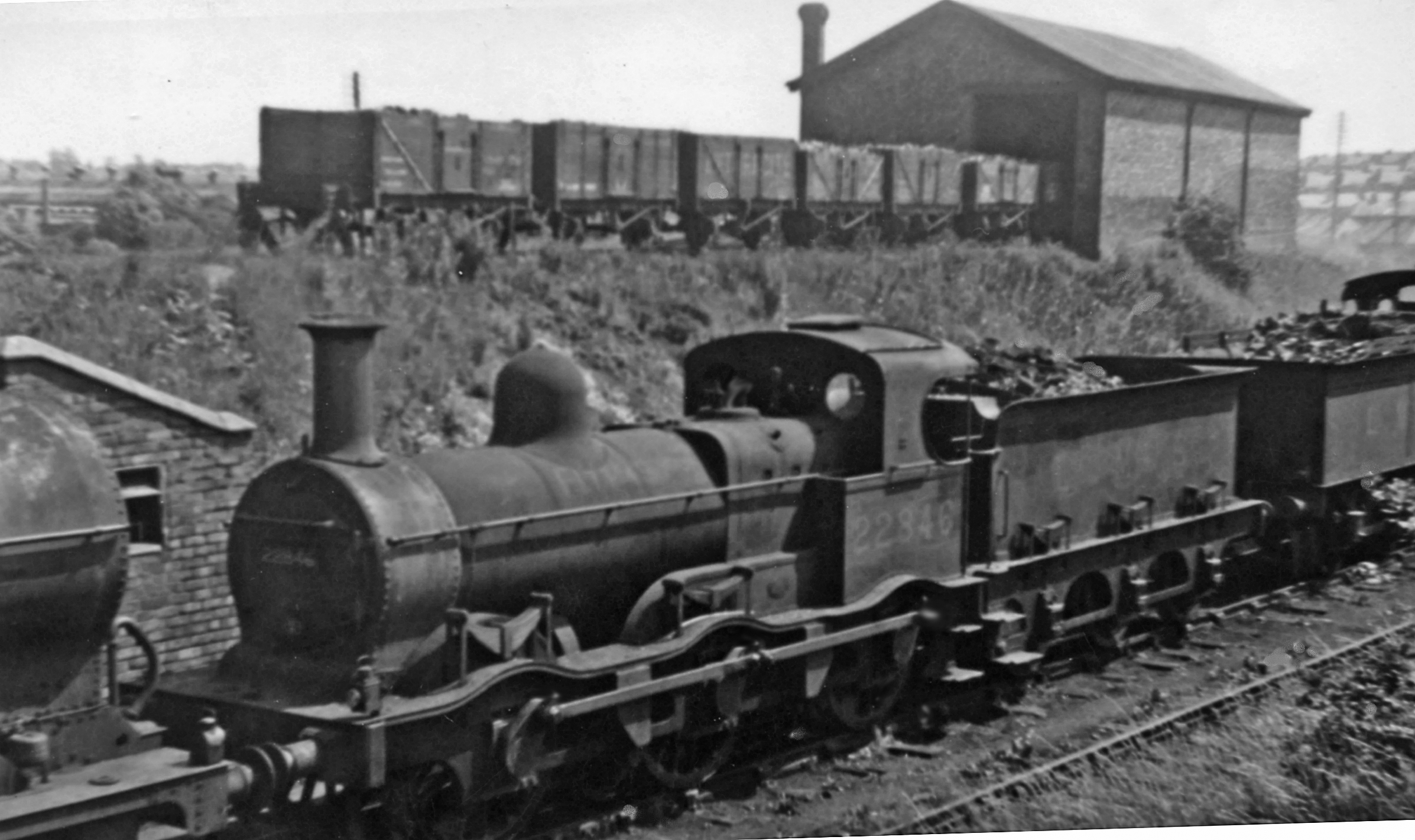 Ancient ex-Midland double-framed 0-6-0 at Bournville Locomotive Depot. Bournville (coded 21B) was a minor depot, its allocation in 1946 of 28 comprising:- 6 4-4-0, 14 0-6-0, 4 2-6-4T, 3 2-6-2T and 1 0-6-0T. Several of the 0-6-0s were light-weight for working over the Rubery Viaduct on the Halesowen Branch. No. 22846 was a 2F survivor of the numerous 0-6-0s built by Kirtley between 1863-74 and rebuilt by Deeley in 1907; it survived until 10/49. (Behind is the coal-stage).